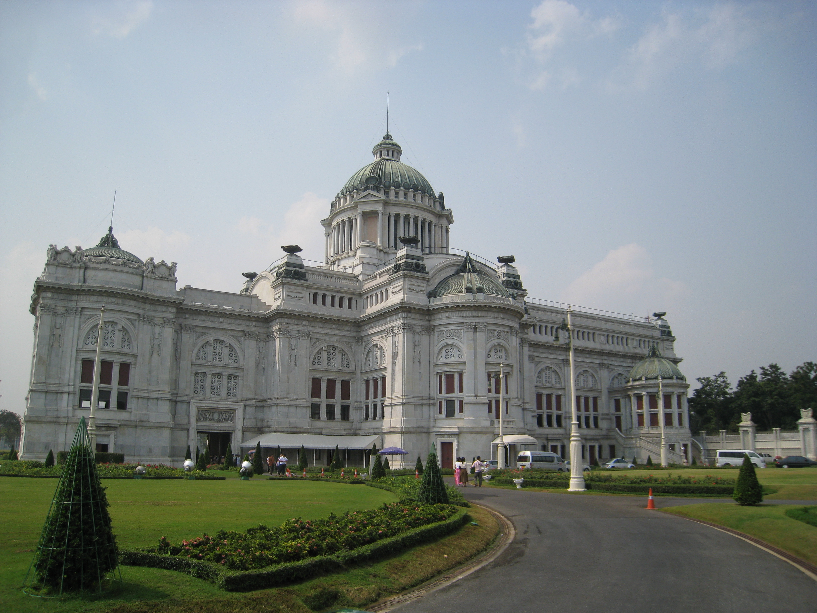 Ananta Samakhom Throne Hall, Bangkok, Thailand